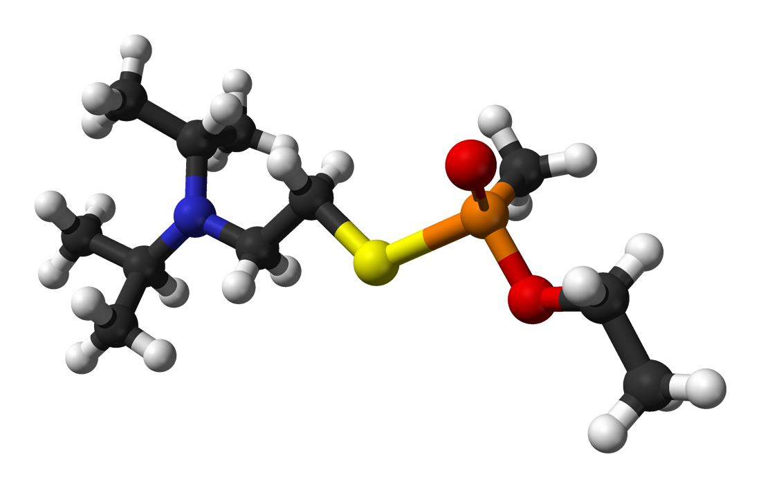 Ball-and-stick model of the (S) enantiomer of VX. Systematic name generated in ChemDraw: (S)-S-2-(diisopropylamino)ethyl O-ethyl methylphosphonothioate. Image based on structural data from this model.[dead link] Cf. John H, Balszuweit F, Kehe K, Worek F & Thiermann H (2015) "Toxicokinetic Aspects of Nerve Agents and Vesicants" in Gupta, Ramesh C. , ed. Handbook of Toxicology of Chemical Warfare Agents (2nd ed.), Cambridge, MA: Academic Press, pp. 817-856, esp. 823 [Fig.56.1] ISBN: 0128004940. . The crystal structures of closely related molecules have been reported: V. G. Andrianov et al., Zh. Strukt. Khim. (1981) 22, 68-1 (MEPVAL) and A. M. Sorensen, Acta. Cryst. B (1977) 33, 2693 (IPEMPI).